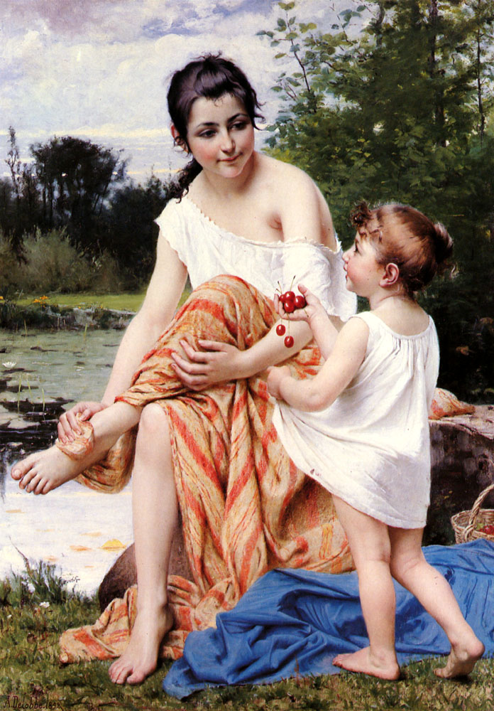 The Offering